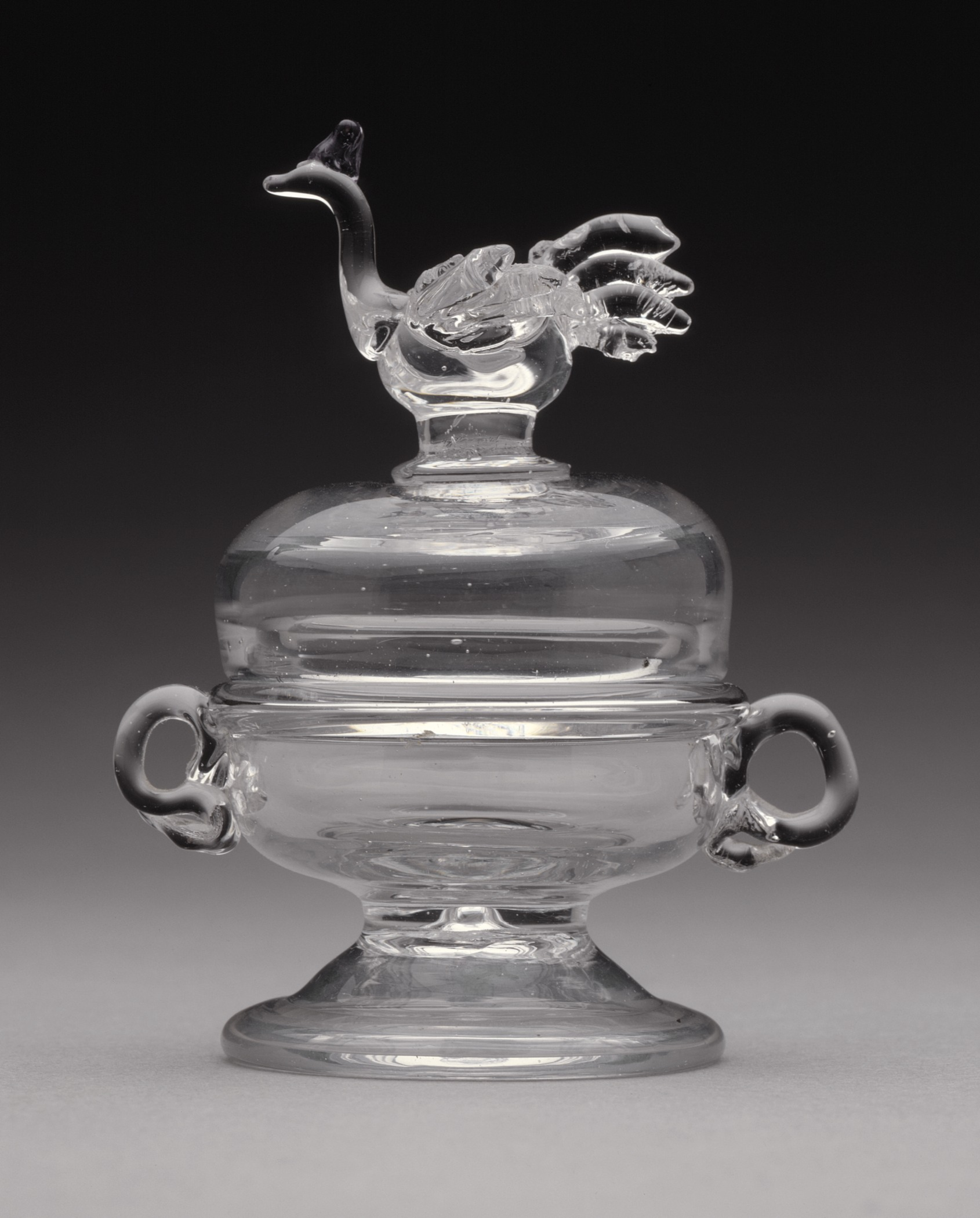 Germany, 1760-1800 Furnishings; Serviceware Glass Purchased with funds provided by Mr. and Mrs. W. Daniel Quattlebaum and Col. and Mrs. George J. Denis (87.7.3a-b) Decorative Arts and Design